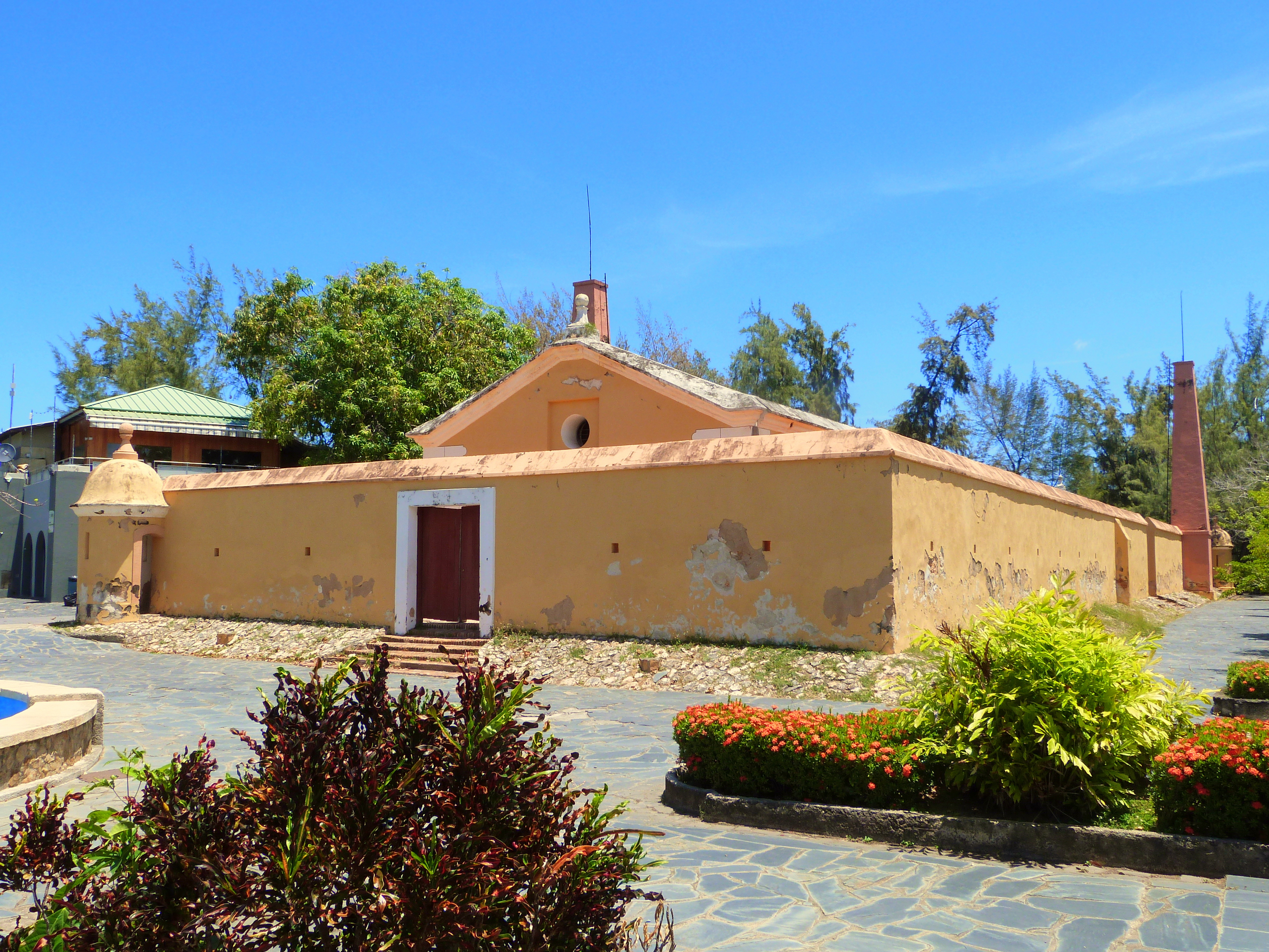 The historic Polvorín de San Gerónimo (bult 1769–1772), located in Luis Muñoz Rivera Park, San Juan, Puerto Rico, is listed as a contributing resource in the Línea Avanzada historic district. The historic district is listed on the U.S. National Register of Historic Places.